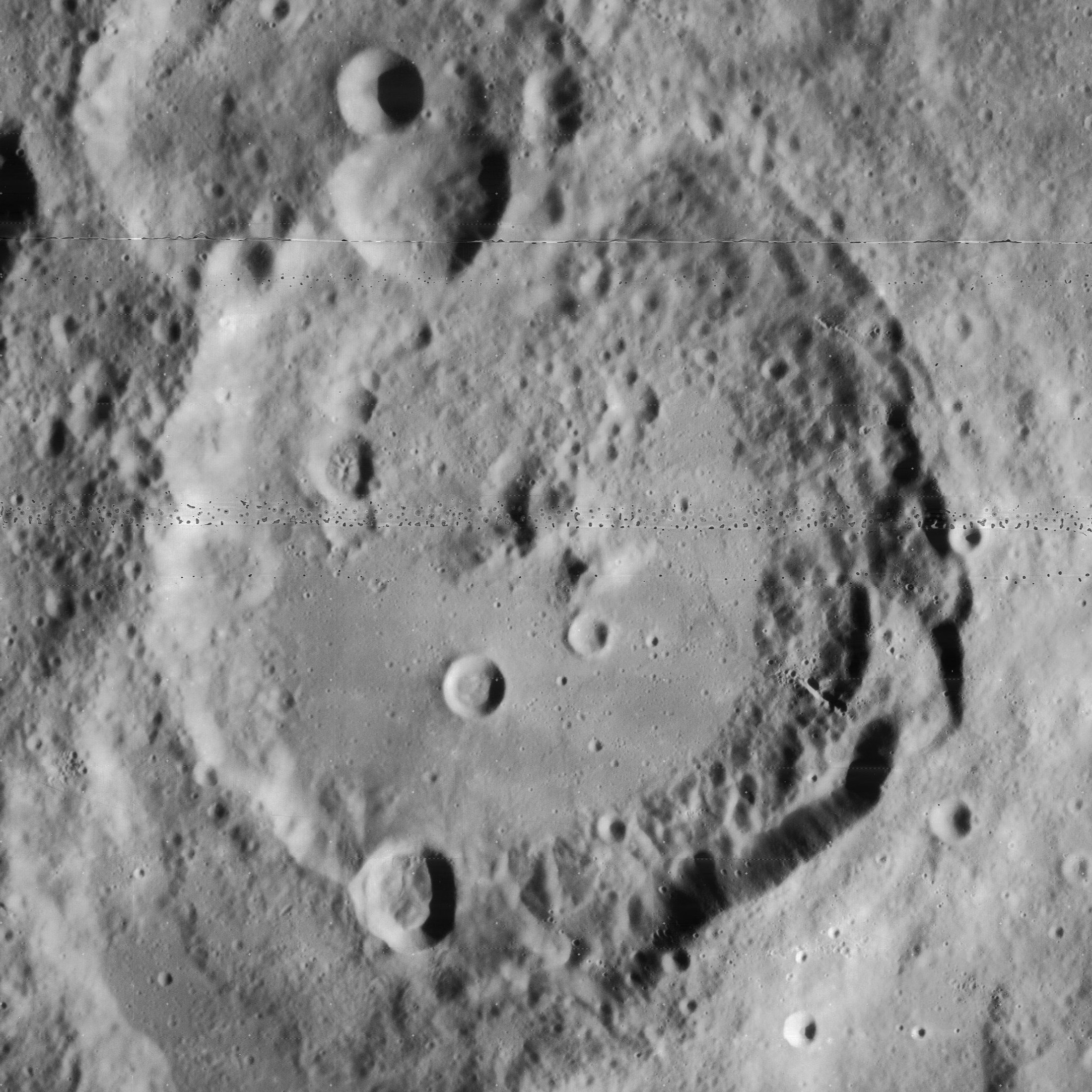 Maurolycus crater, on the moon. Horizontal bands are blemishes on the original.